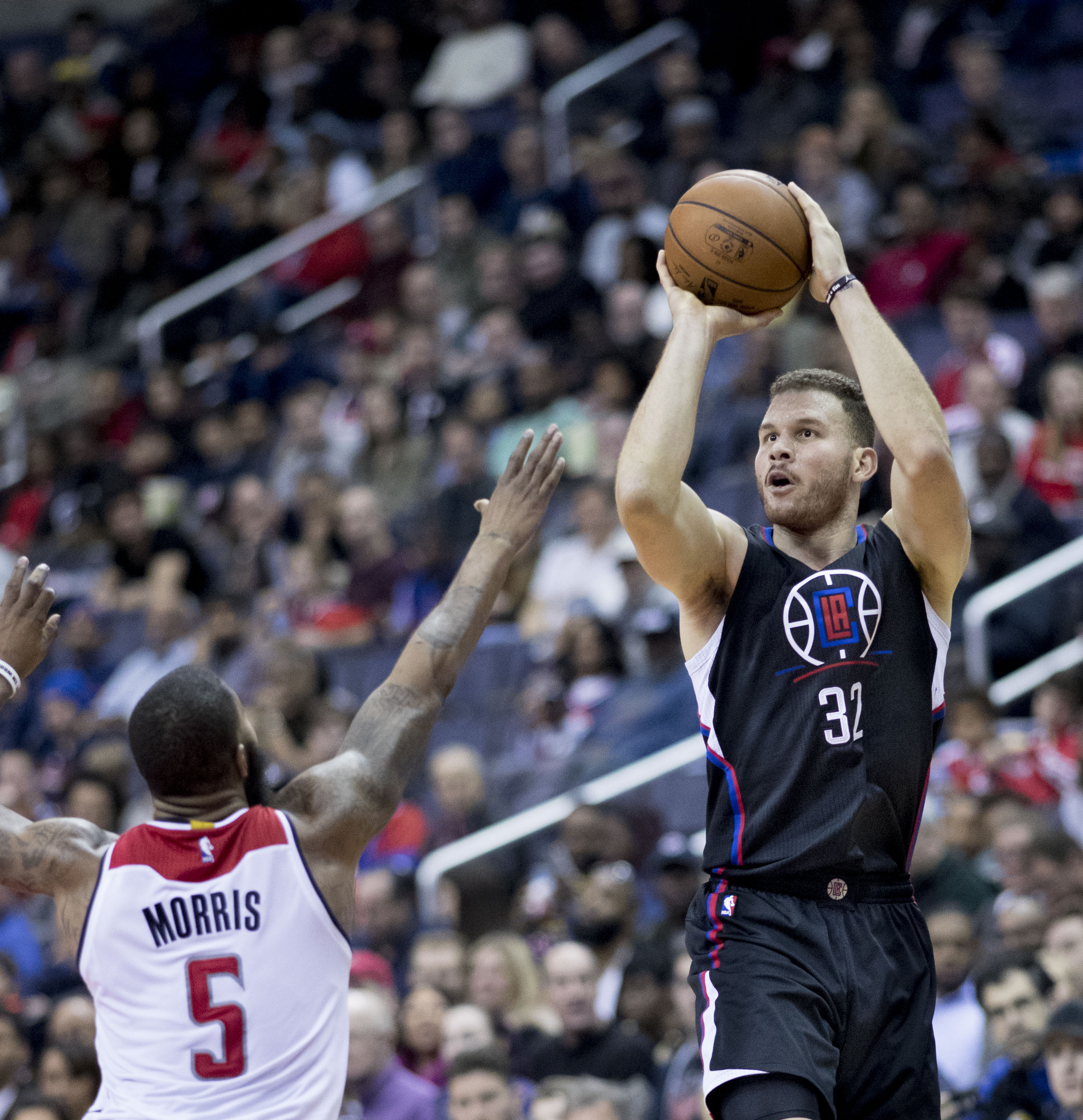 Clippers at Wizards 12/18/16